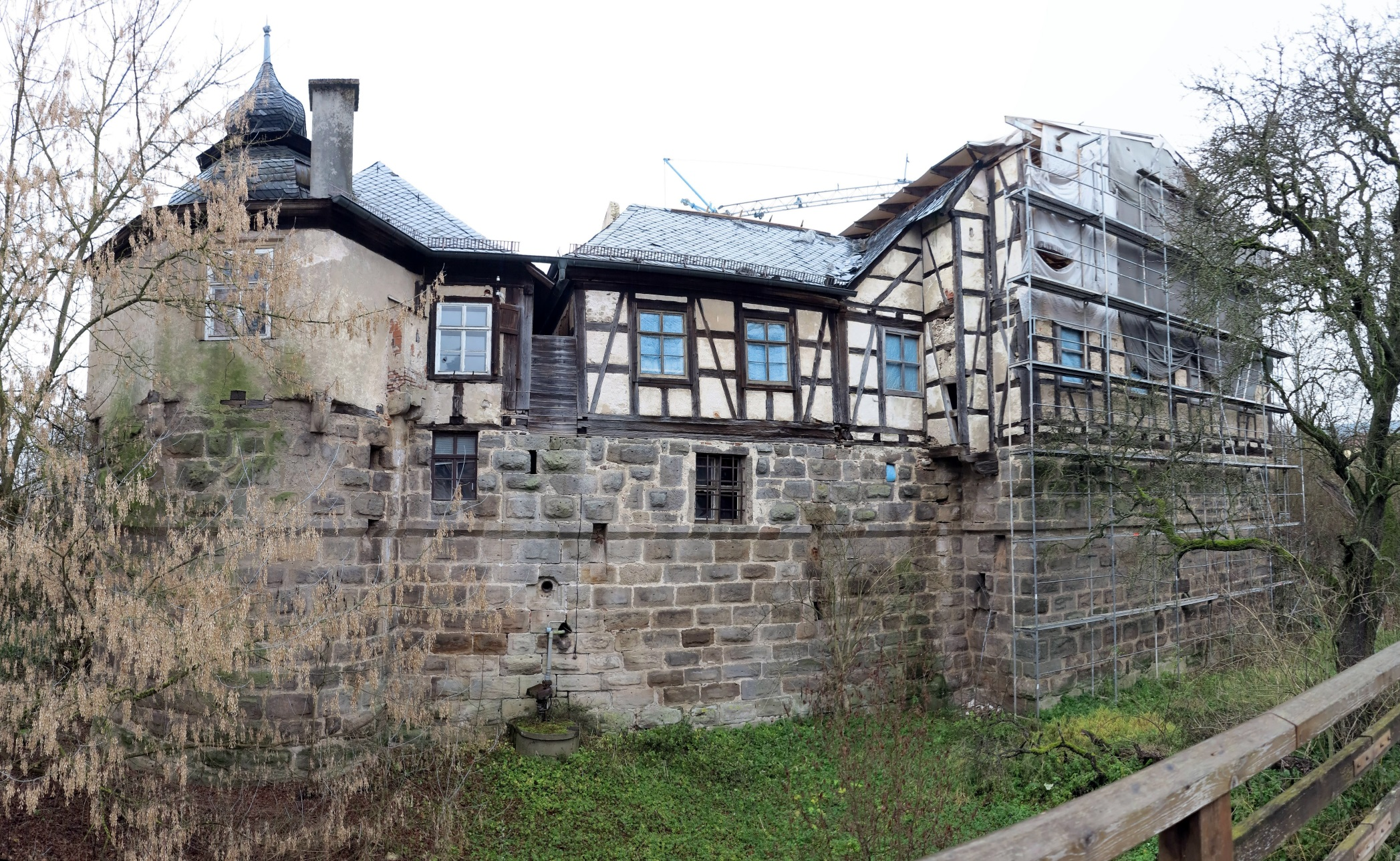 Ruins of Castle Ebelsbach